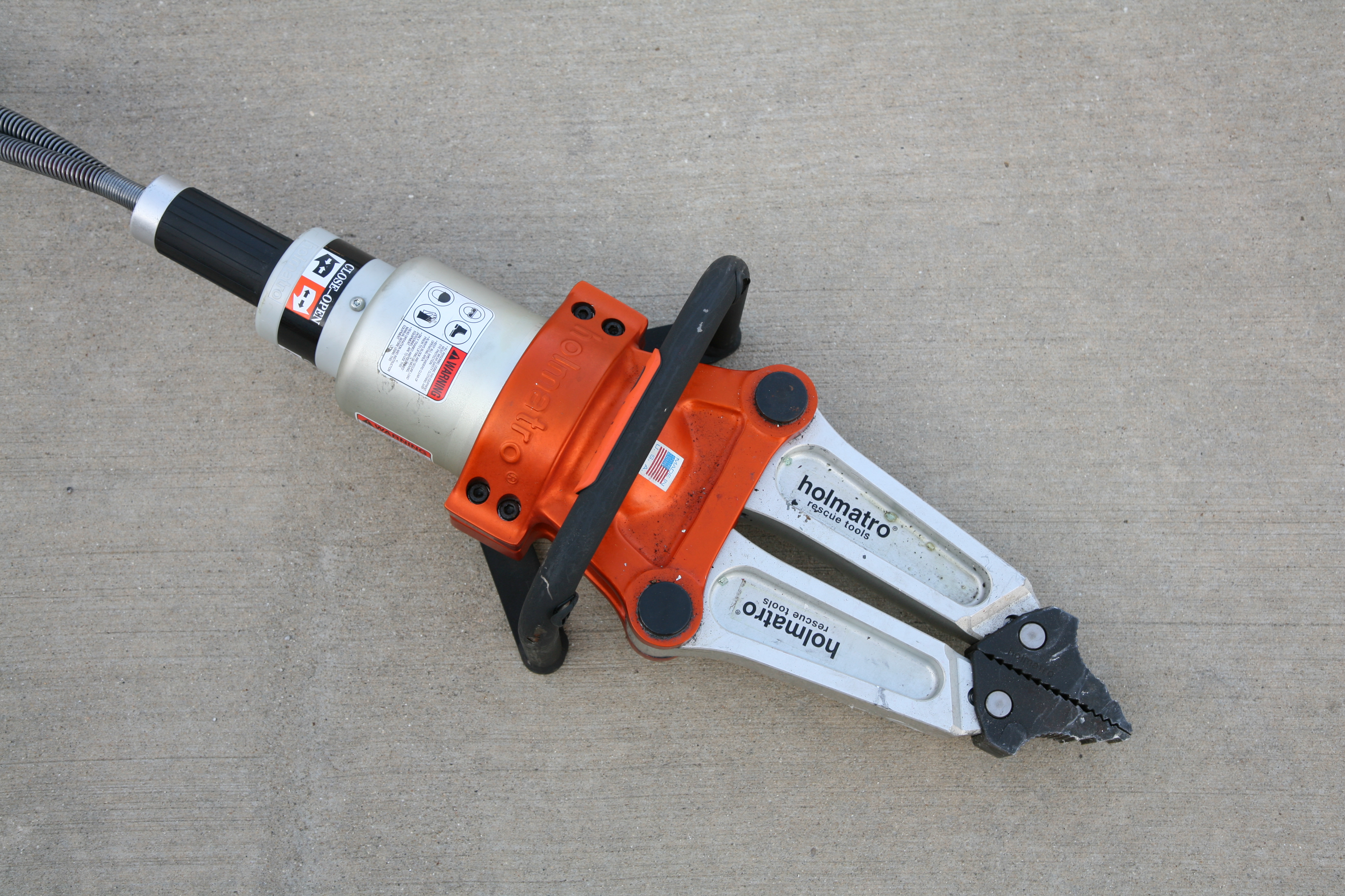 Hydraulic spreader